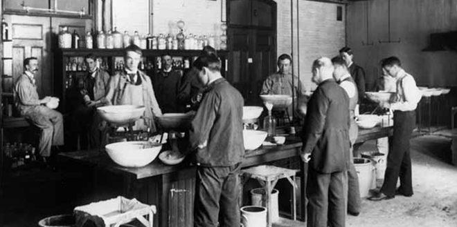 Students at a industrial chemistry laboratory at the Massachusetts Institute of Technology.